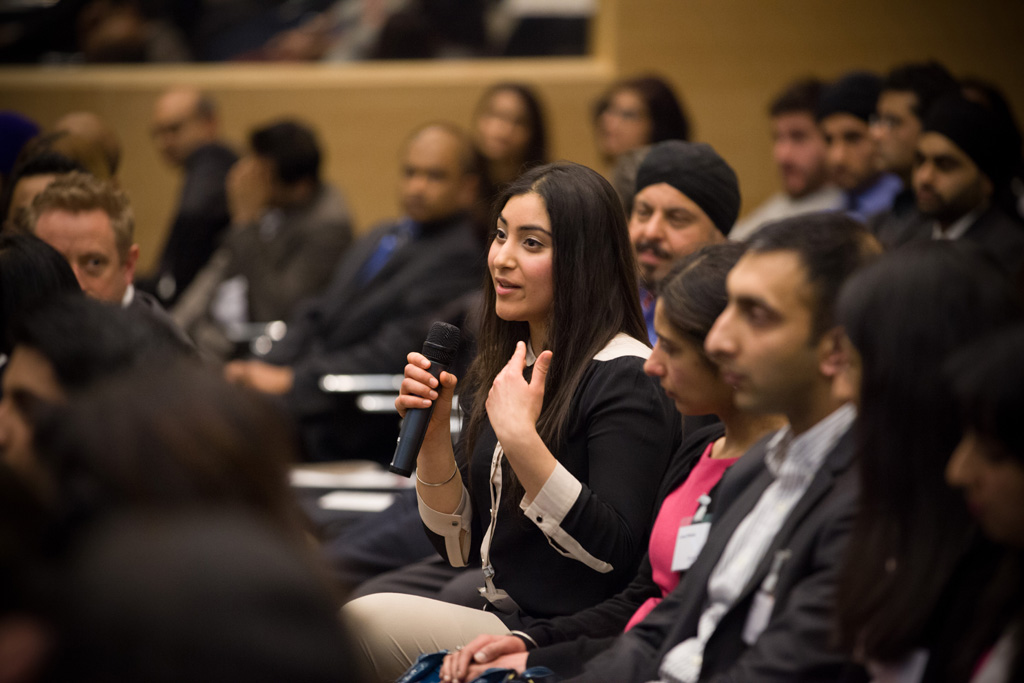 Hundreds of Sikh professionals come together regularly in London to be inspired and to share their life journeys.